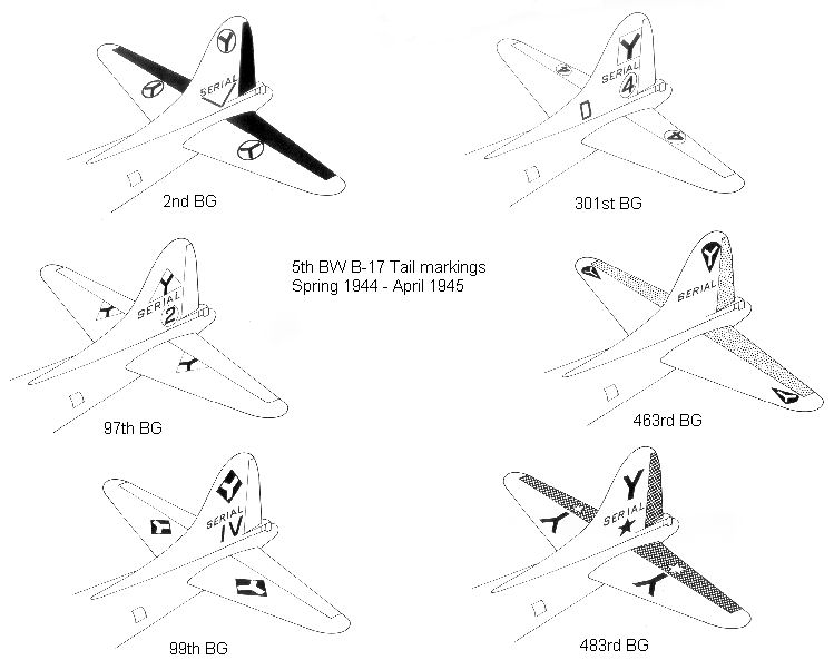 Tail codes of the 15th Air Force 5th Bomb Wing (World War II)